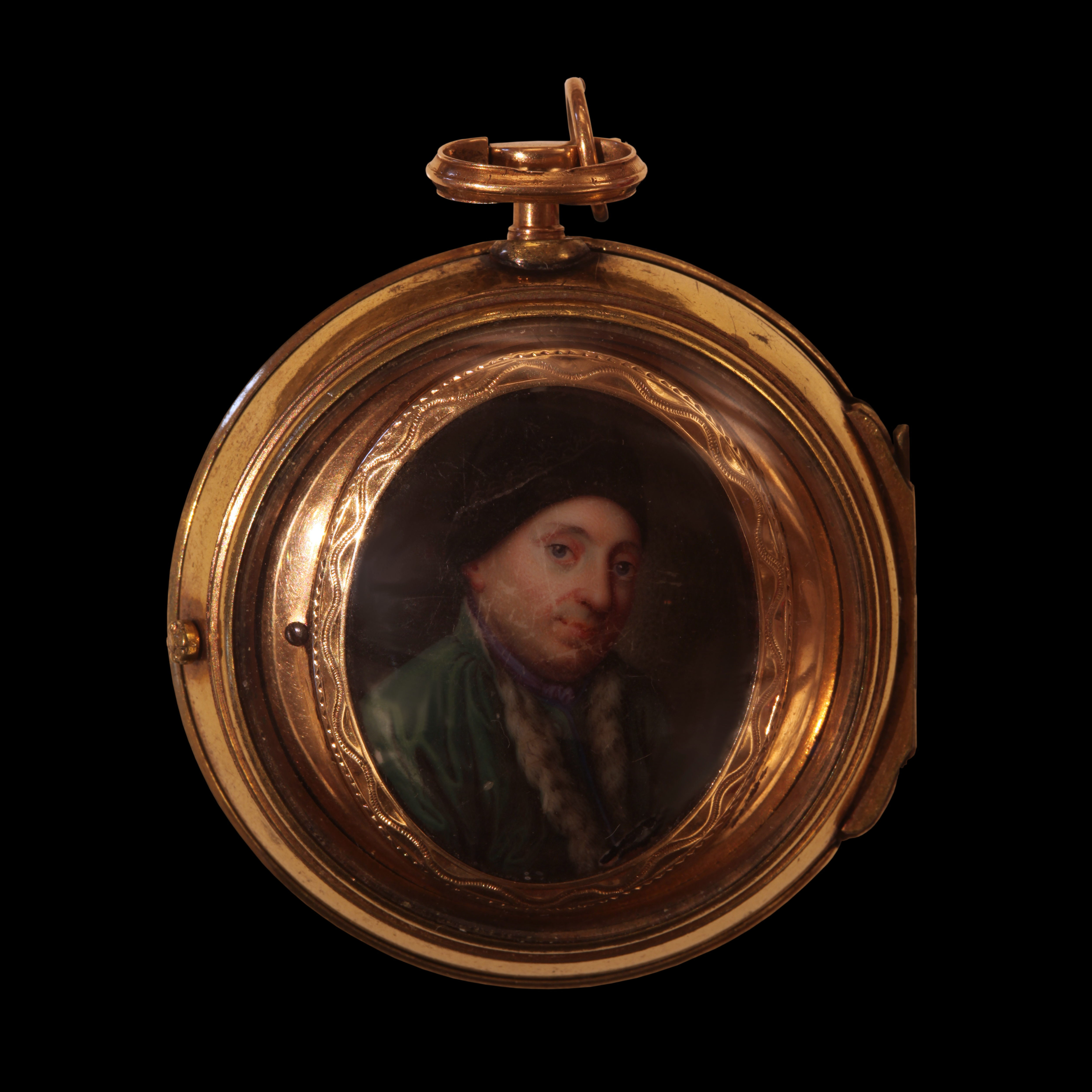 Pocket watch of Fortunato Felice, with a portrait of the owner. On display at Yverdon History Museum.